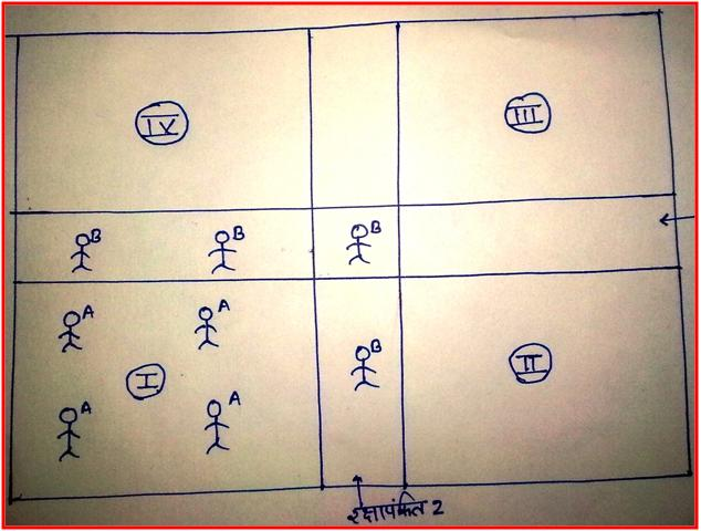 Surr is a sport usually played by men in the areas around Ayodhya in the northern India. It is played on a rectangular ground divided into four equal quadrants. Two perpendicular lines of defense run in the middle of the ground. Team A gathers in one of the quadrants, while Team B gathers along the lines of defense bordering the quadrant.